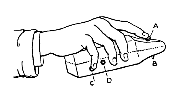 Clockwork "percuteur".